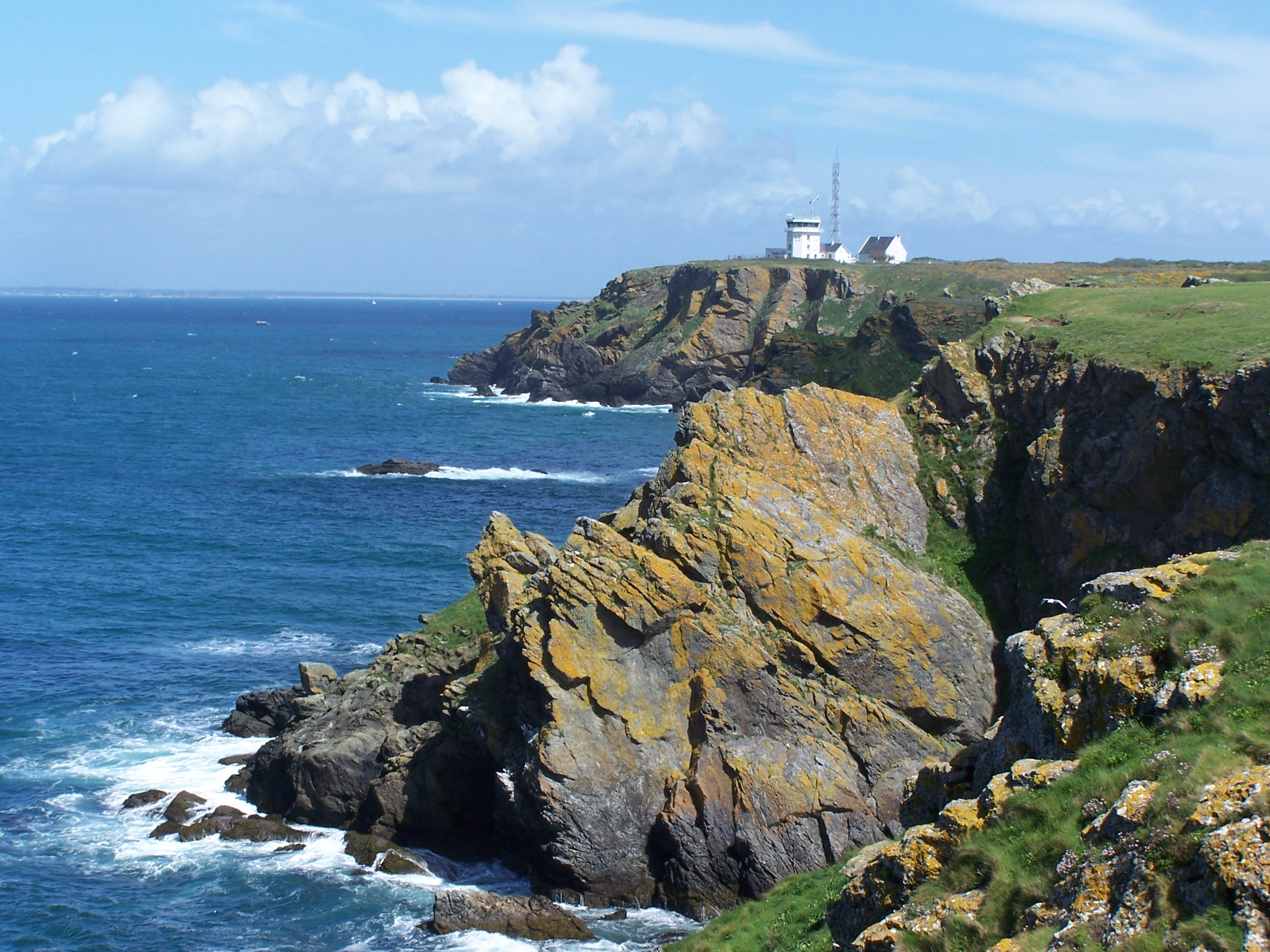 Côte de l'île de Groix de la pointe Pen-Men au sémaphore de Beg Melen